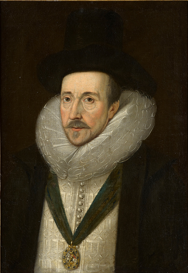 Portrait of Henry Howard, 1st Earl of Northampton (1540-1614)